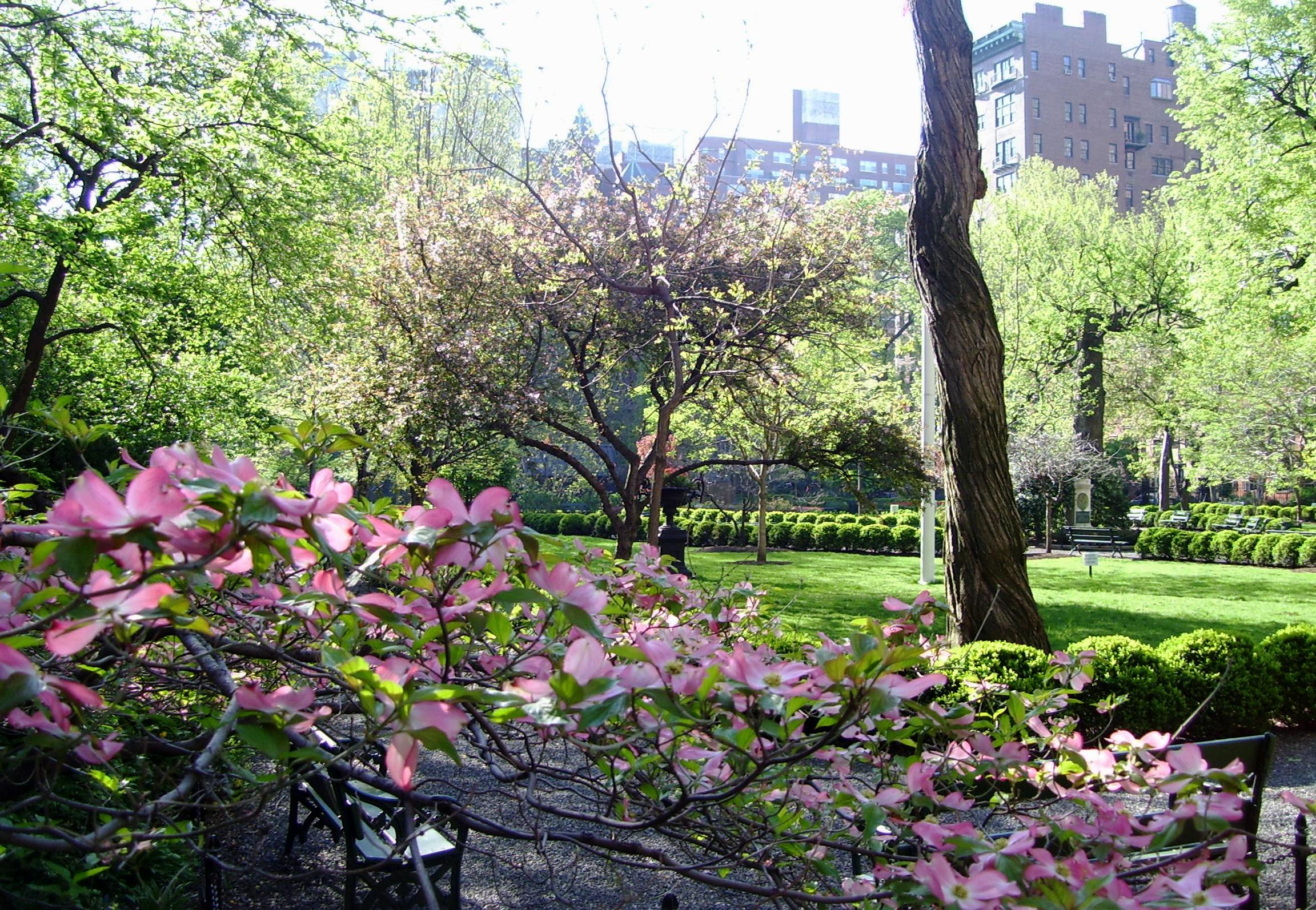 Interior of Gramercy Park, from the northwest corner